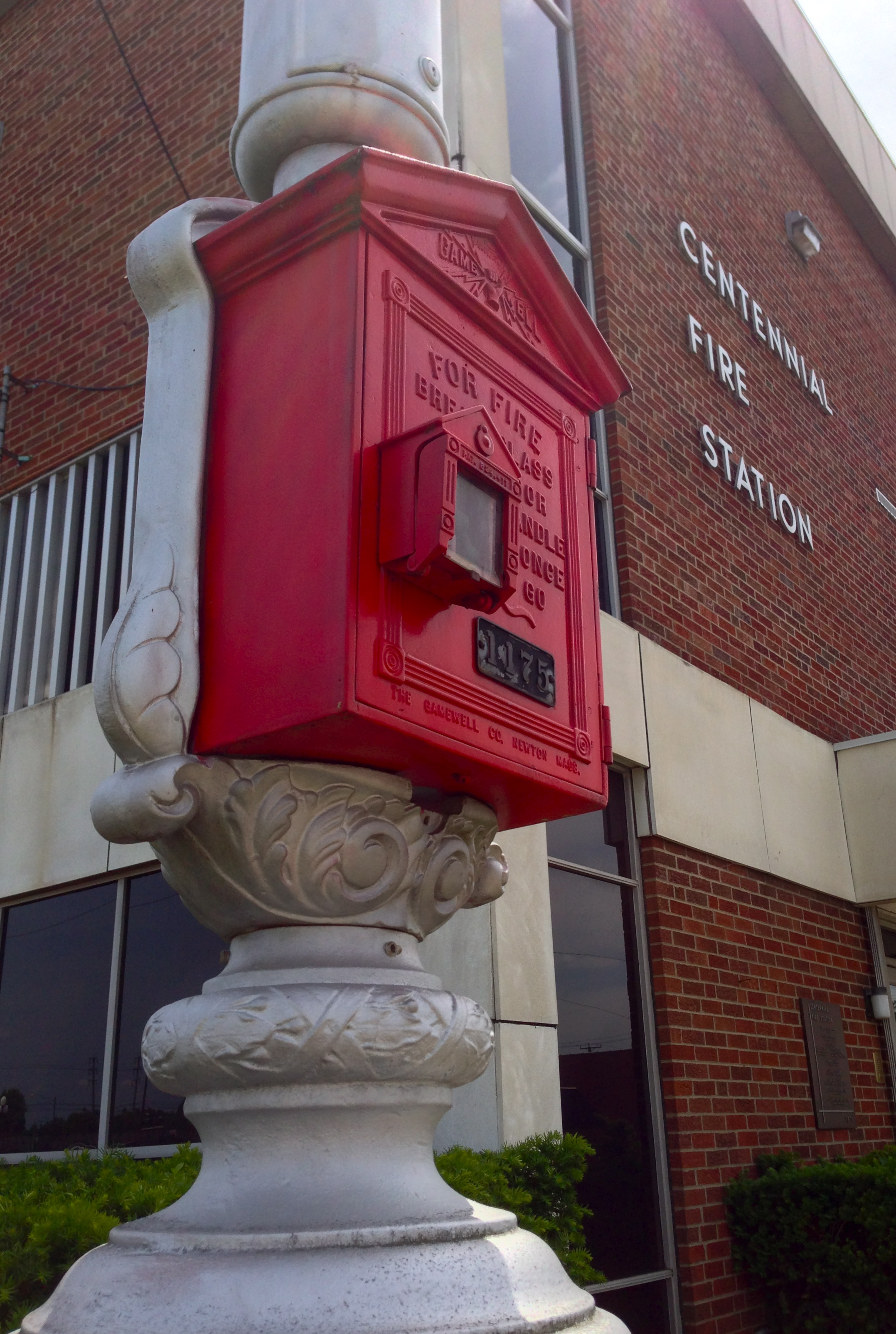 Original Fire Box outside Centennial Station No. 1.